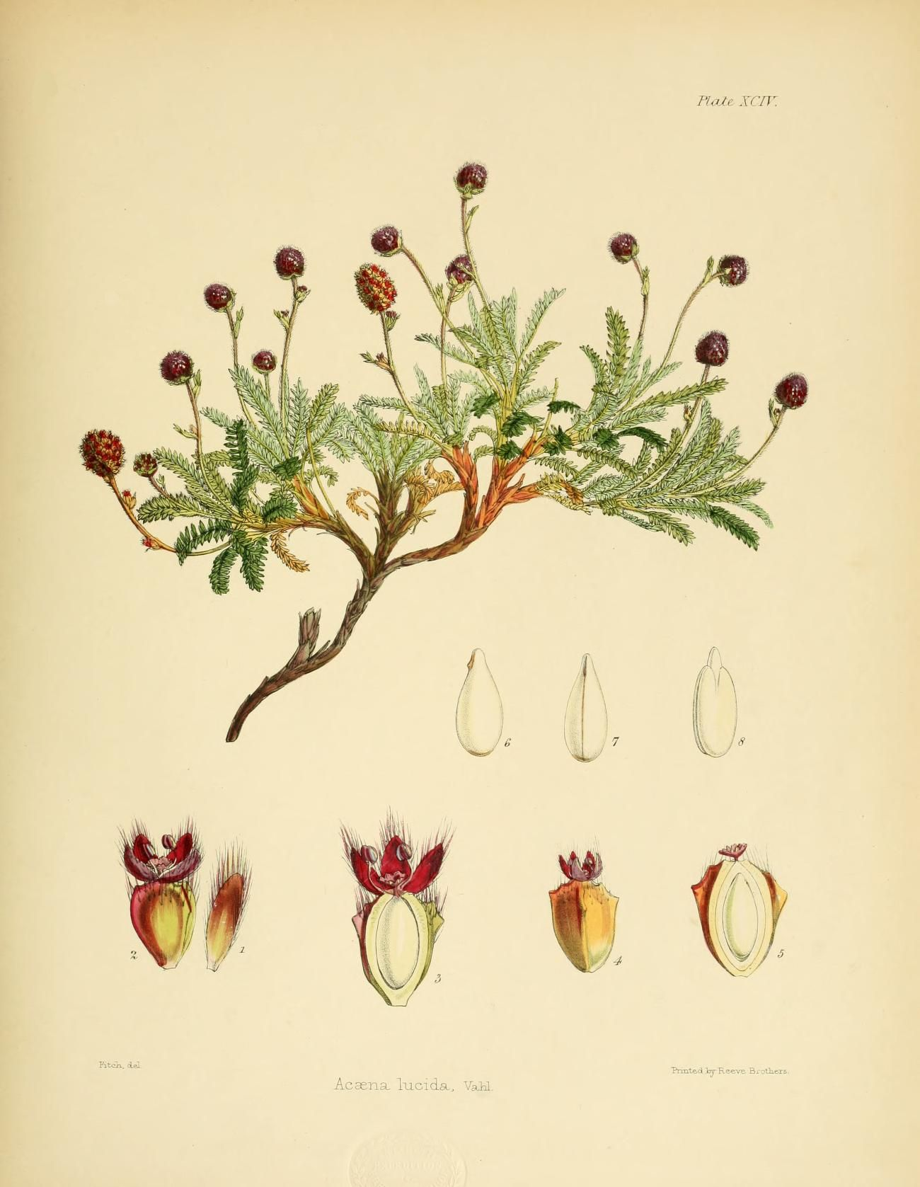 jpg of Plate XCIV of Hooker's Flora Antarctica. Acæna lucida Vahl